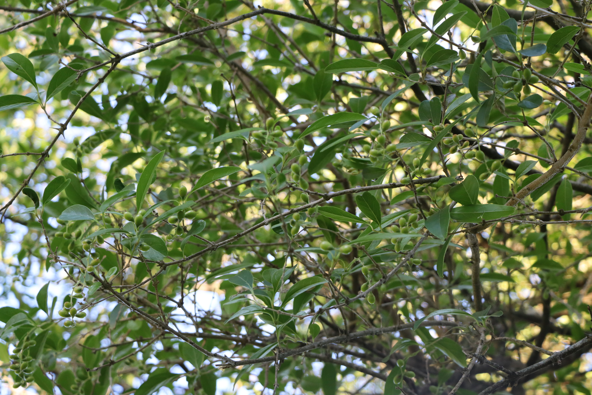 Photo of Citharexylum montevidense uploaded from iNaturalist.